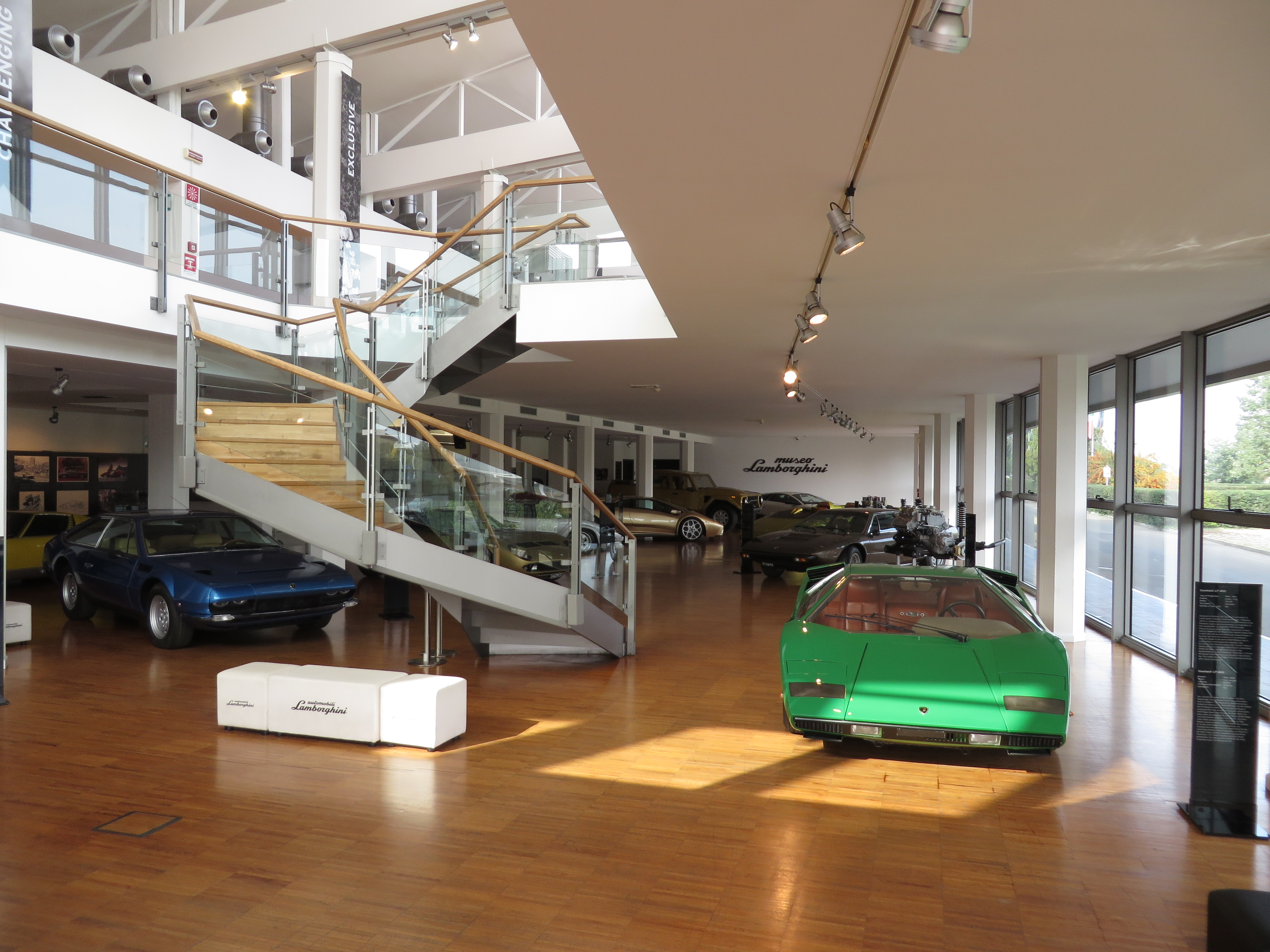 Museo Lamborghini, Via Modena, 12, Sant'Agata Bolognese, Bologna, Italy.